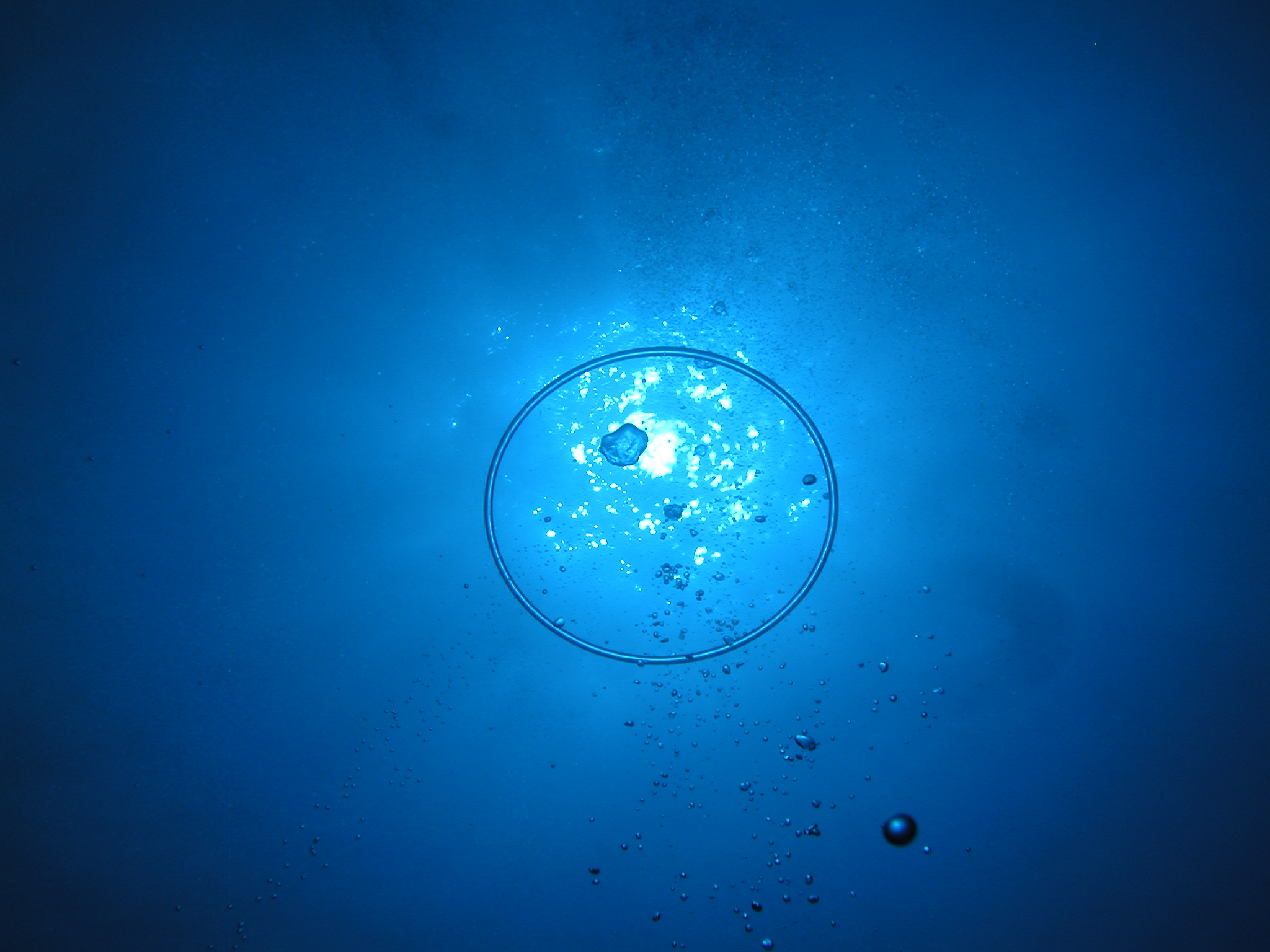 An air ring (bubble ring) rising in the sunlight. Taken in The Bahamas.